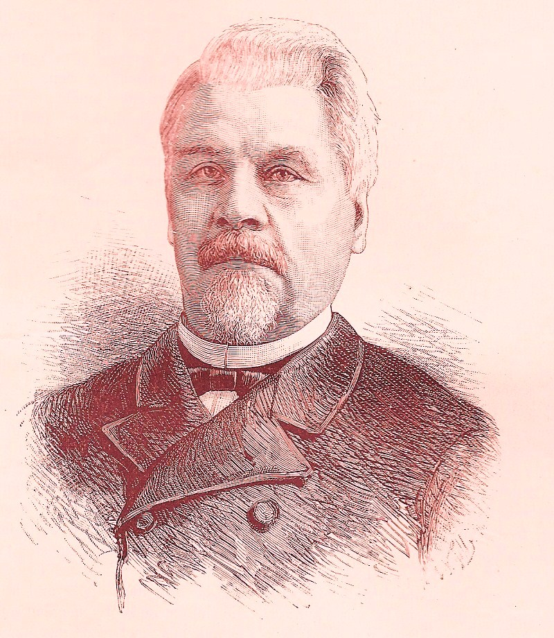 Johannes Nicolaas Ramaer in 1887